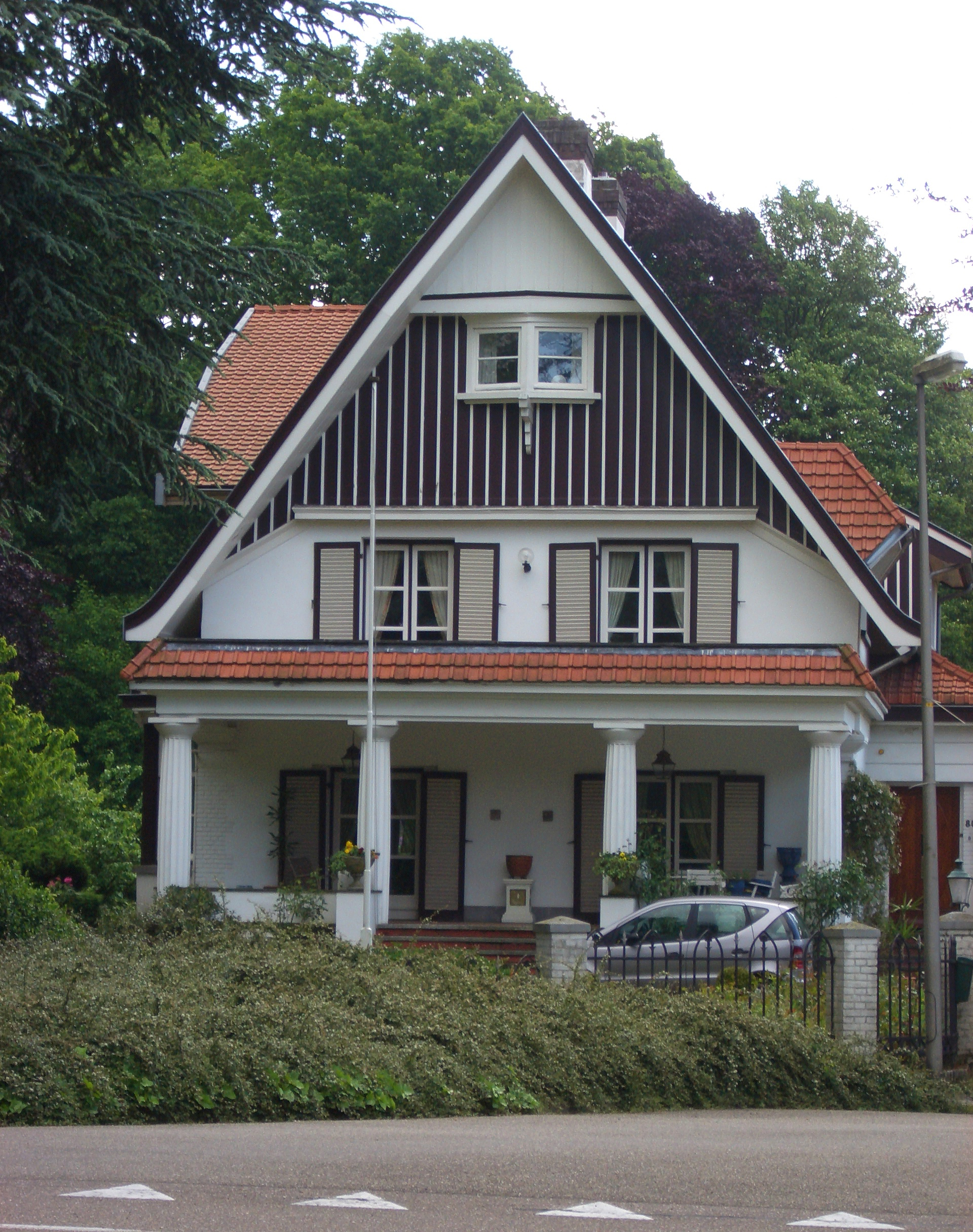 This picture of Huize Wijnands (Frits Peutz, 1919) in Heerlen